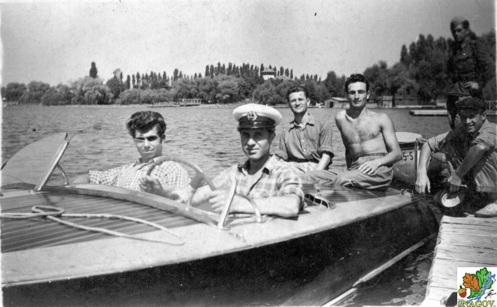 Local workers, at the wharf of villa Muntenia, in the Riva boat (of King Mihai) during the Communist period